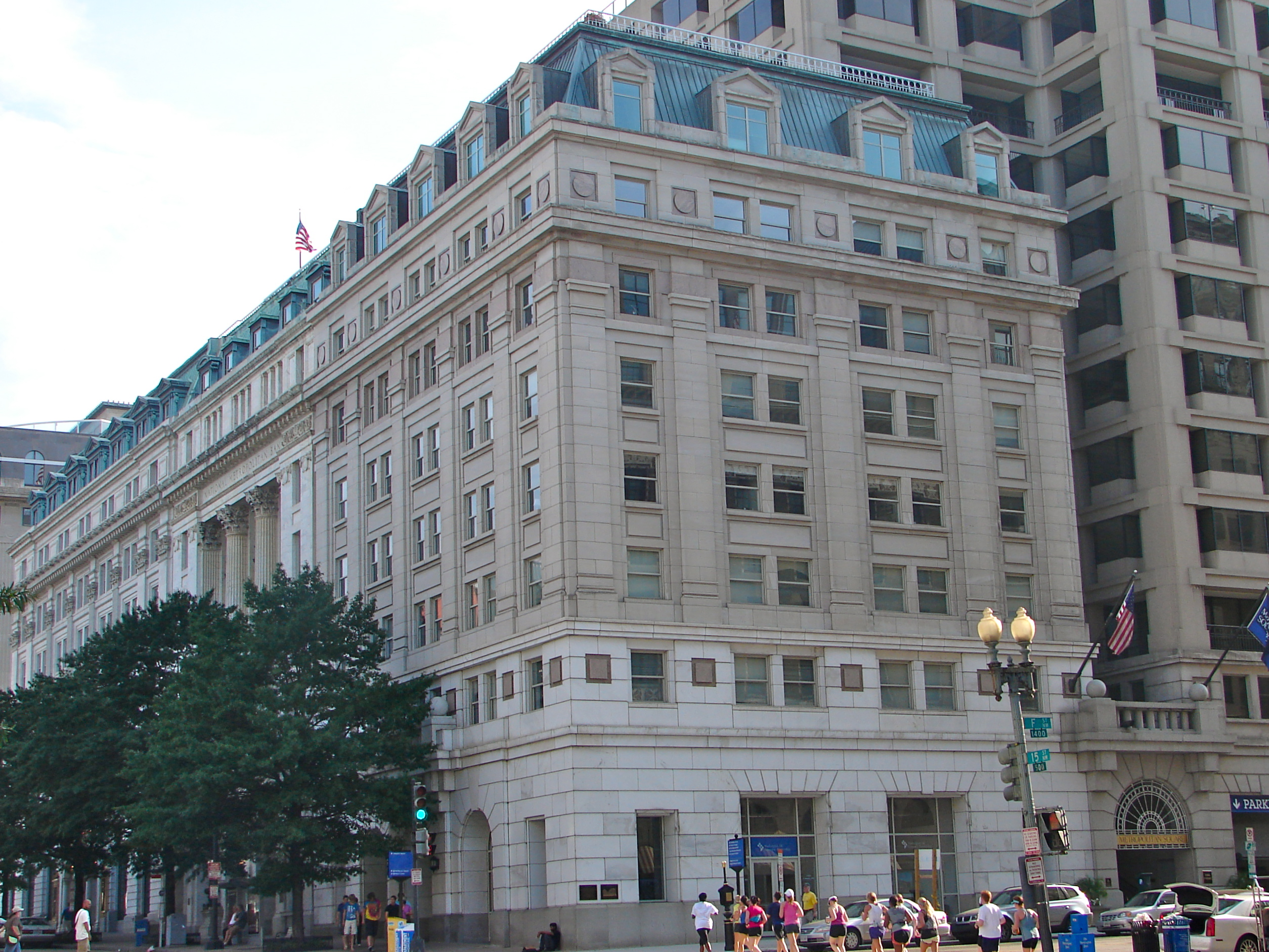 Chase's Theater and Riggs Building on the NRHP since September 7, 1978. Located at 1426 G St. NW. and 615-627 15th St. NW., right across 15th from the US Treasury Building, in Downtown Washington, DC. Note that the first 4 bays of this building are new since the nomination - actually it's two different buildings. The NRHP listing starts just before the big Greek columns and goes back to G Street.